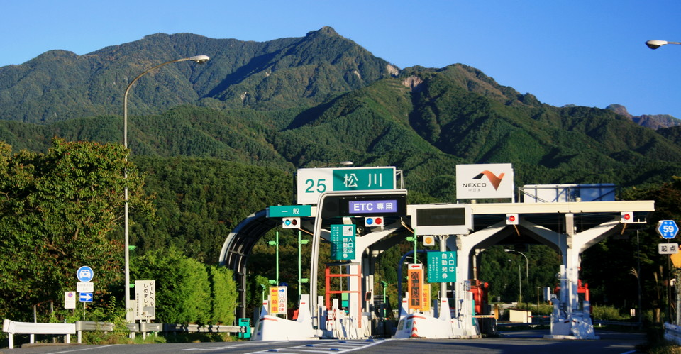 Matsukawa IC of Chuo Expressway in Matsukawa town, Nagano prefecture, Japan.